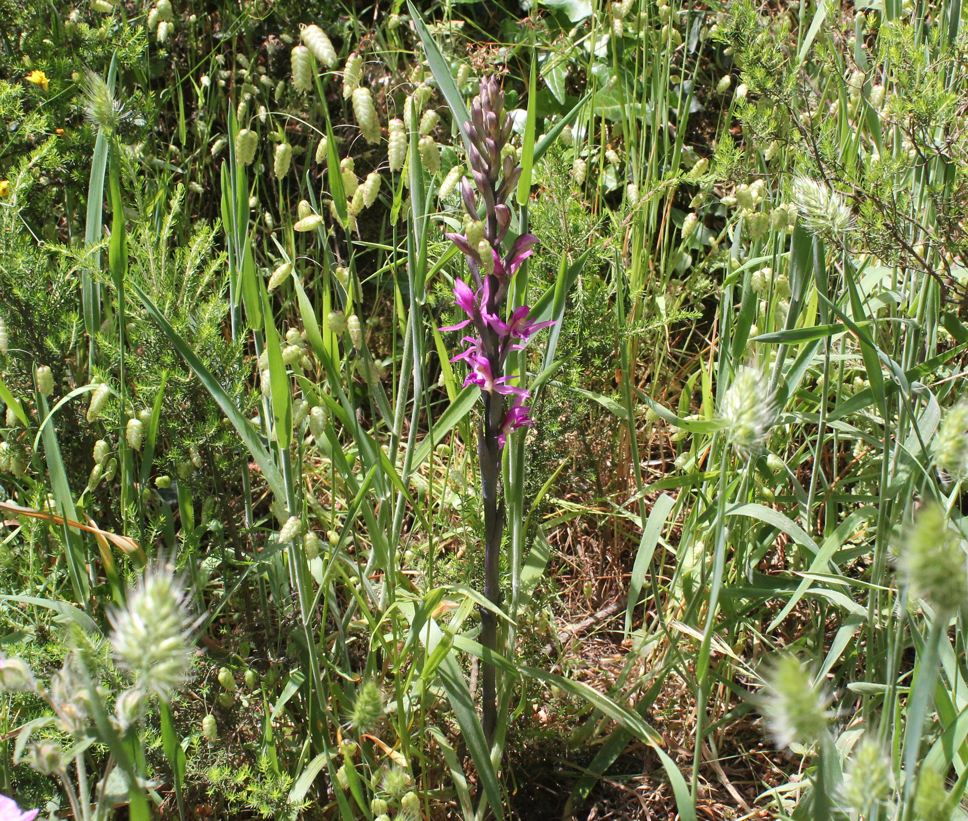 Limodorum abortivum var. rubrum scape